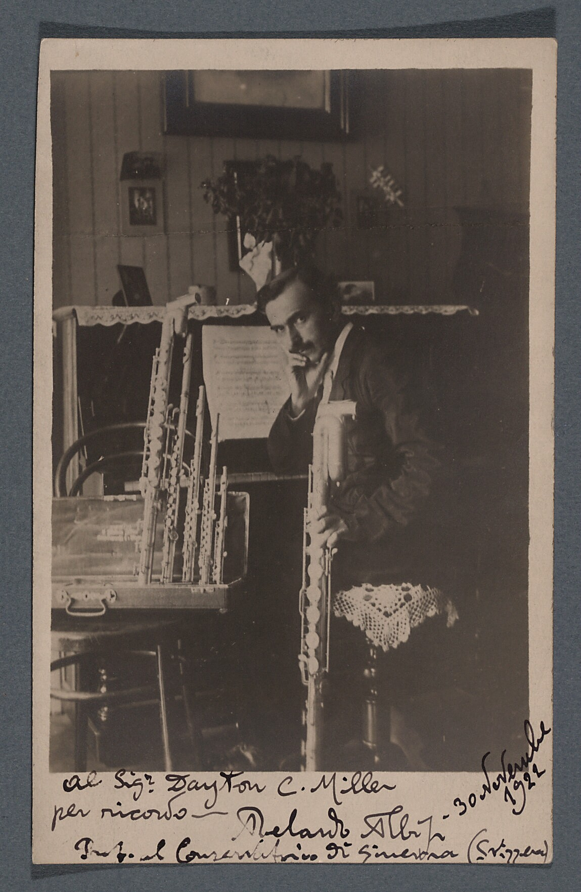 Photograph of Abelardo Albisi, Italian flutist and inventor of the Albisiphone.